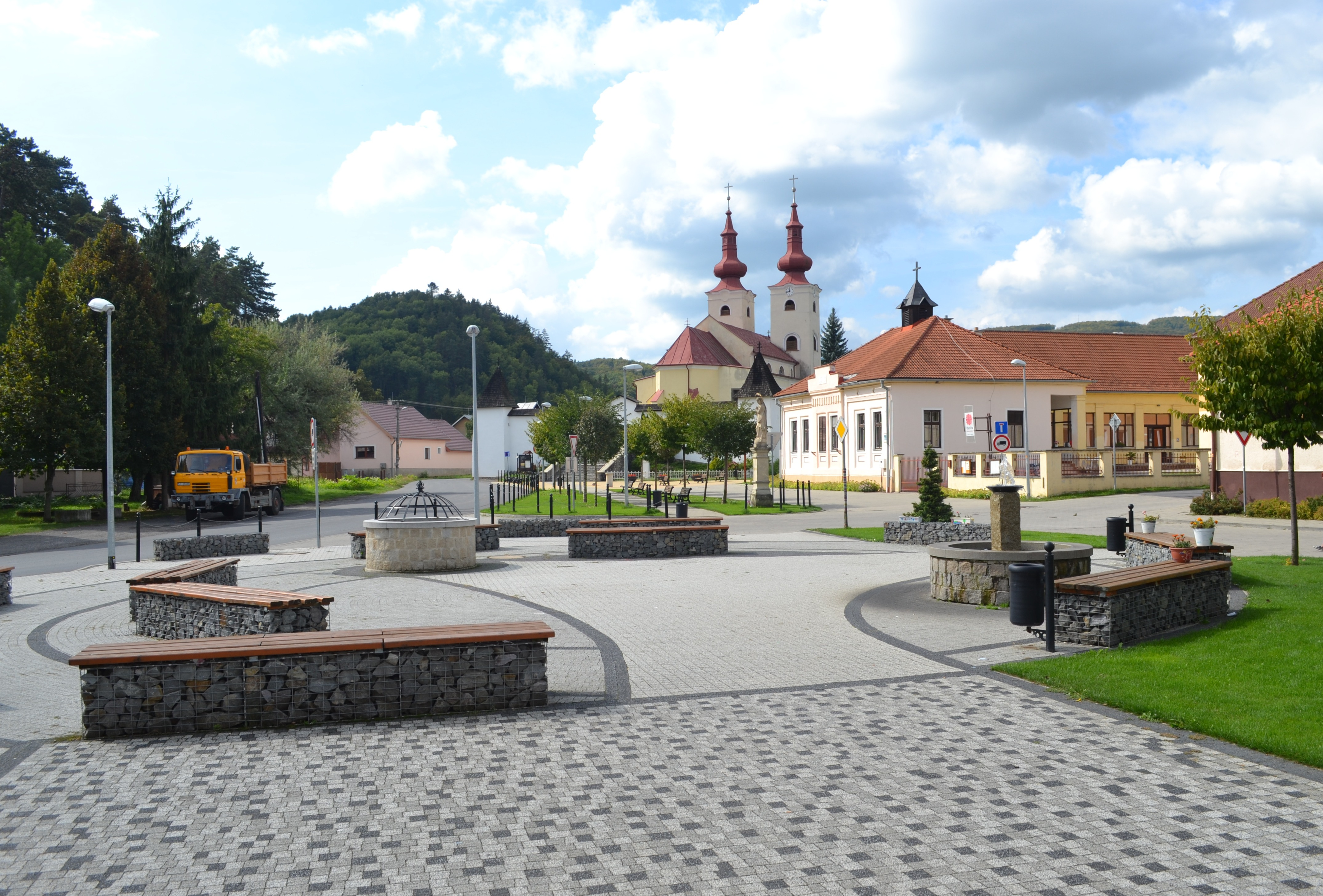 Square of peace in the village Divín